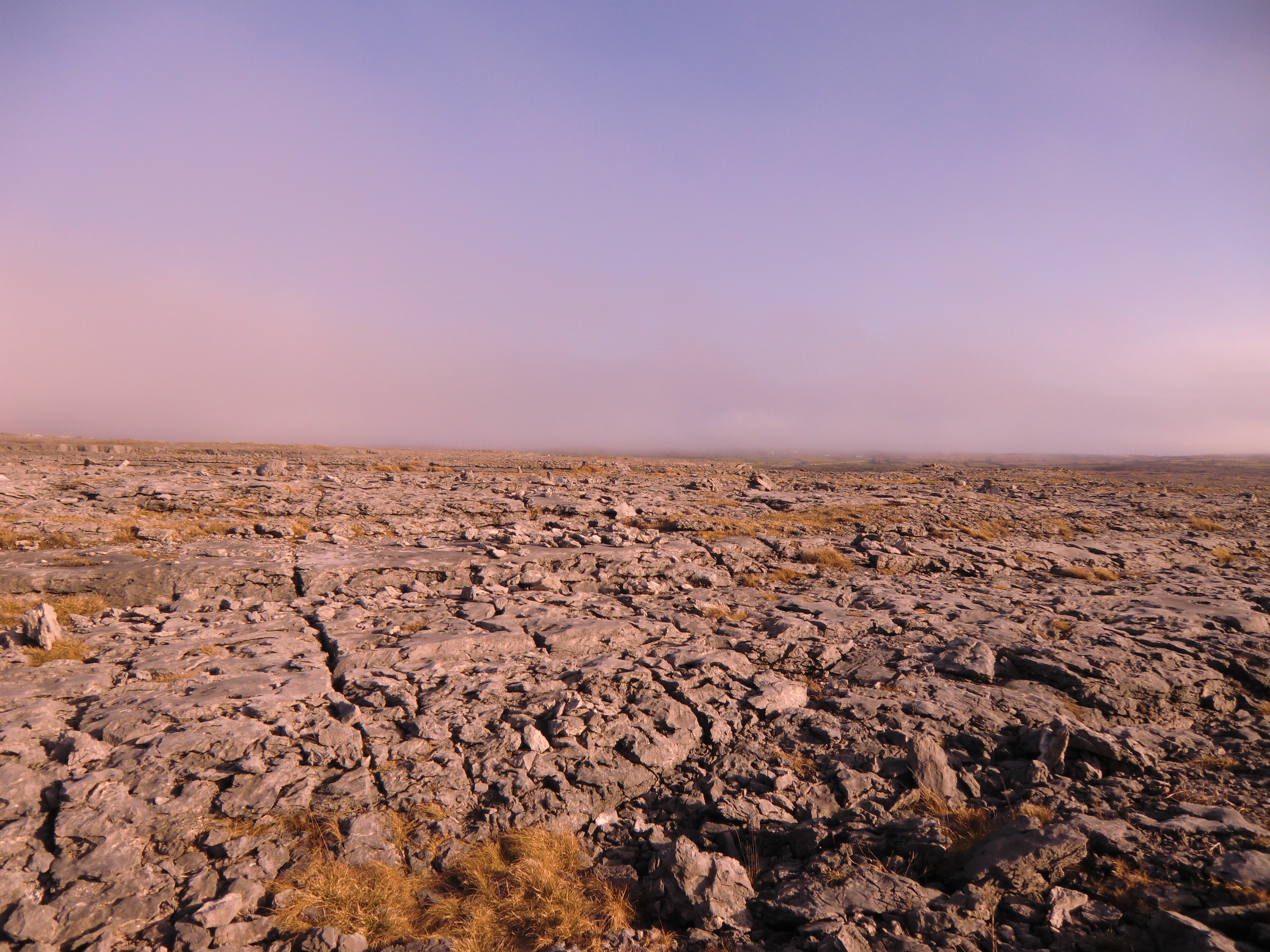 The Burren in the evening sun